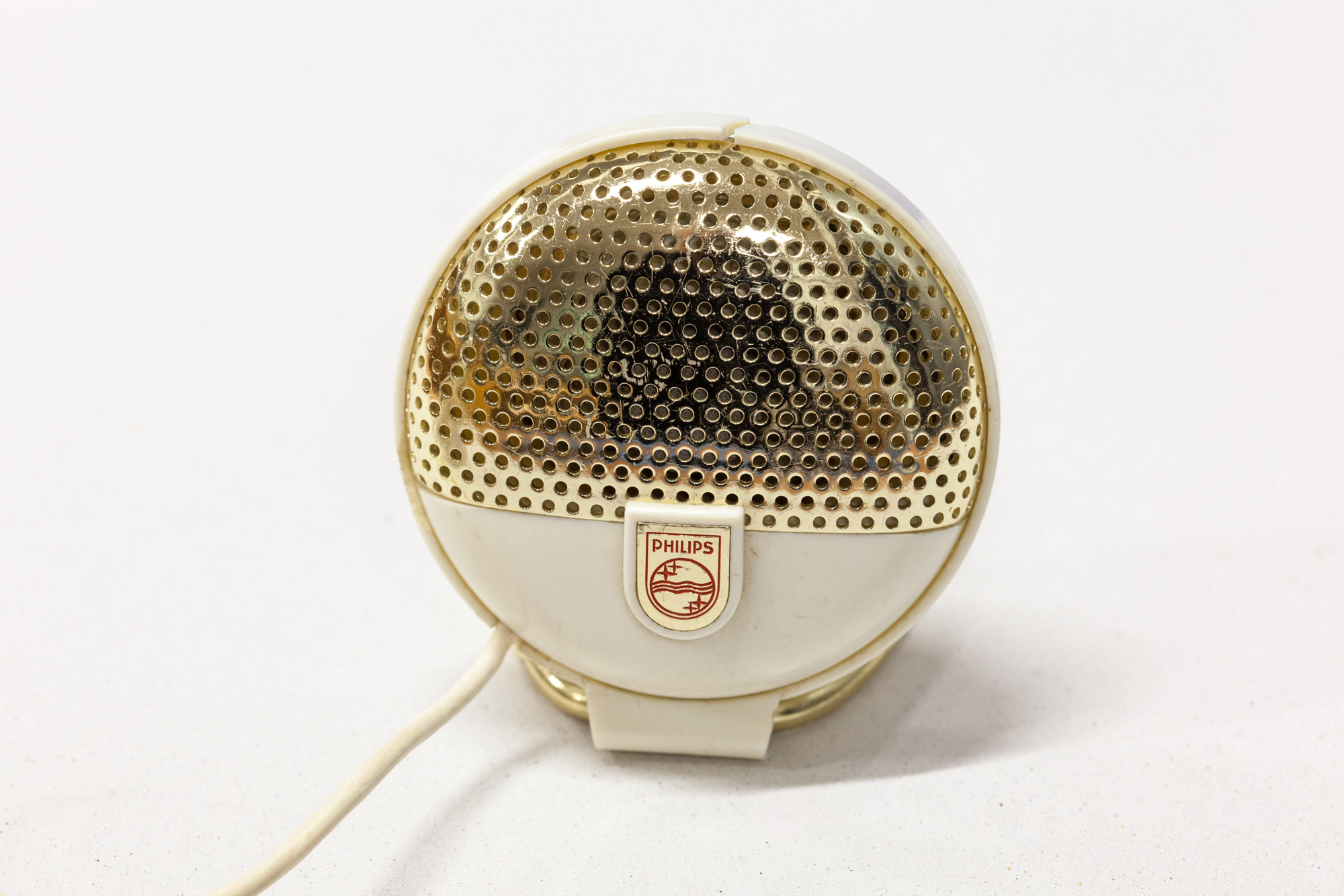 Philips amateur microphone EL/3750 for tape recording, 1955. Museum für Kommunikation, Frankfurt, Germany. Photo by Maximilian Schönherr with help from Lioba Nägele.